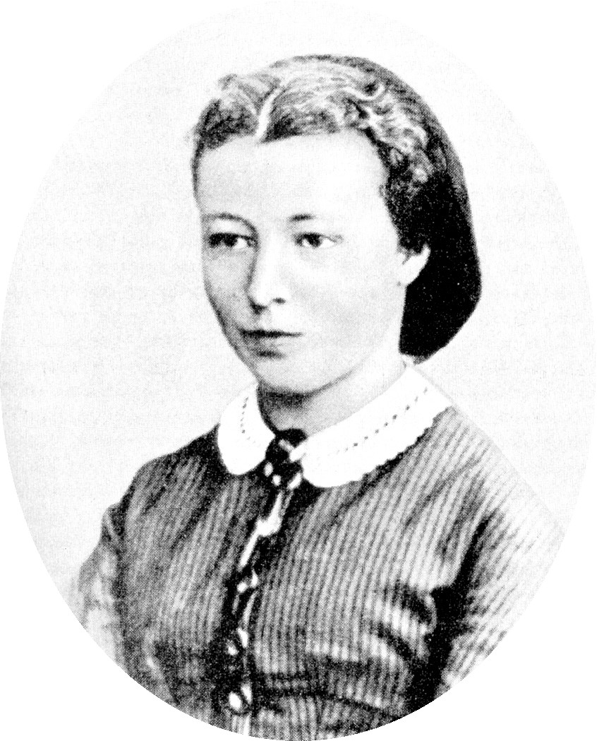 Gottfried Keller's fiancee, born 1843 in Langenau (Bern CH), died 1866 in Herzogenbuchsee (Bern CH)